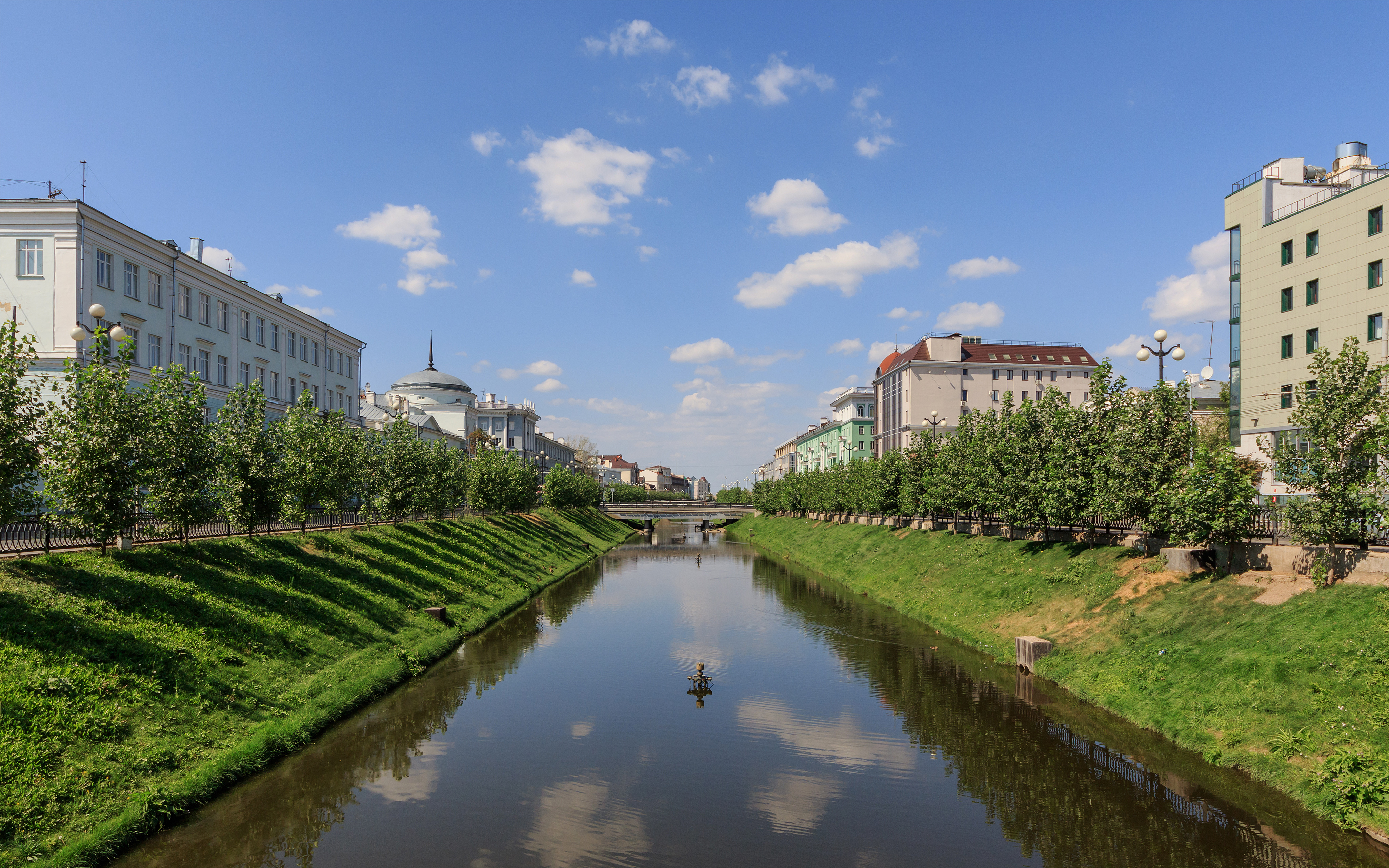 Bolaq Canal in Kazan, Russia